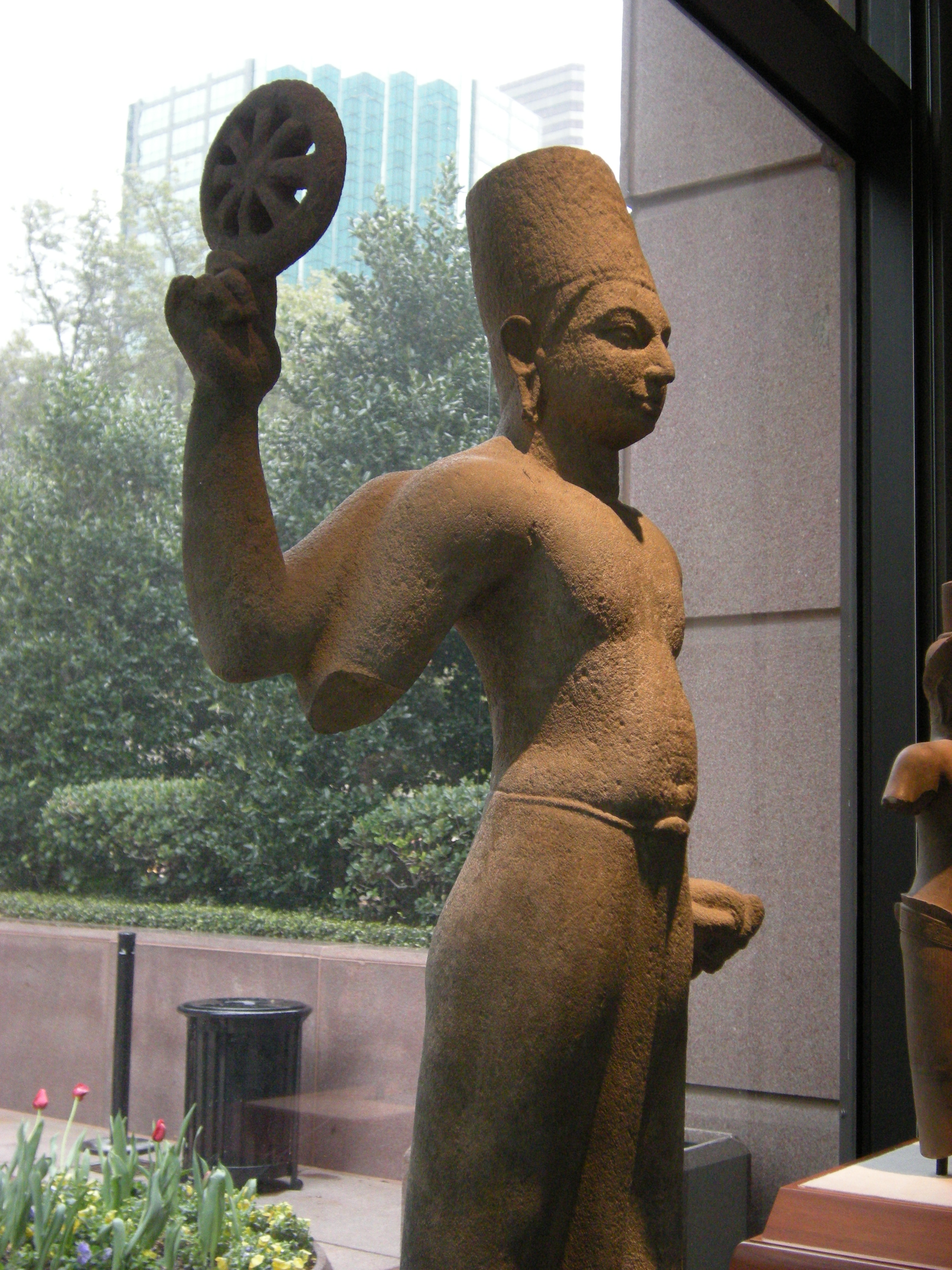 7th century Cambodian sculpture of Vishnu. Trammell and Margaret Crow Collection of Asian Art, a museum in Dallas, Texas.